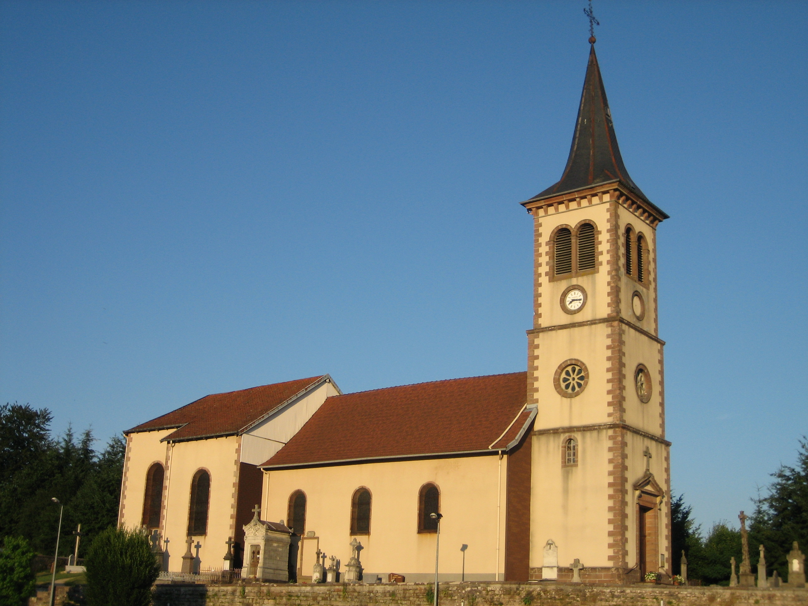 View of Sainte-Menne Church of Deycimont (Vosges, France), 2006/08, by Raphaël Tassin (raphdvoj)